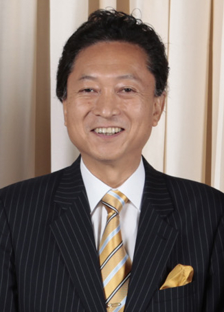 Yukio Hatoyama, at a reception at the Metropolitan Museum of Art in New York.